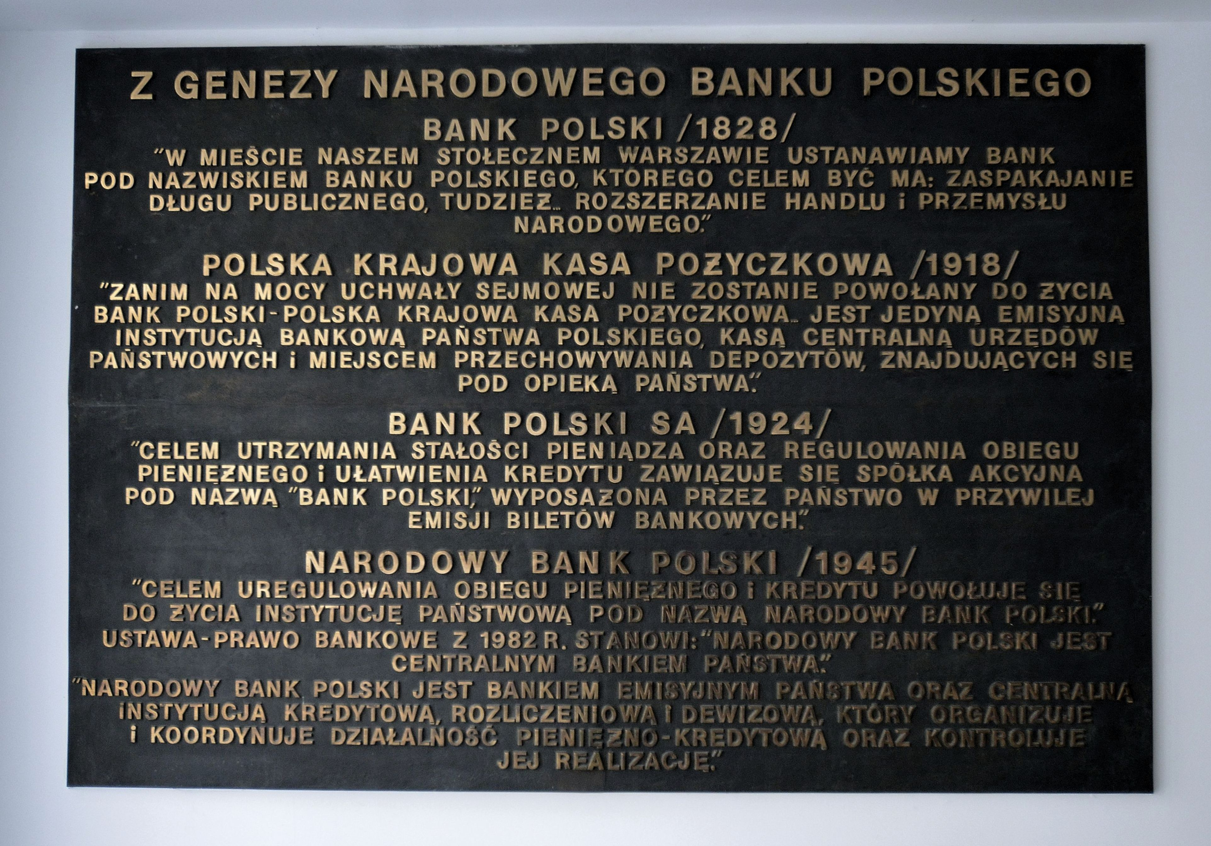 Plaque near the entrance to the National Bank of Poland main building in Warsaw